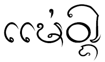 Lanna script – Mae Wang is a district (amphoe) in the central part of Chiang Mai Province in northern Thailand.